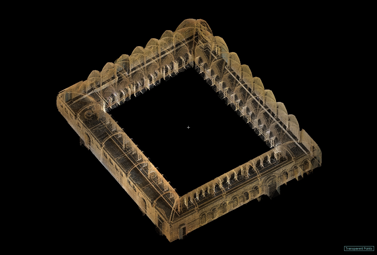 The cloister of St. Trophime is unique in that the northern and eastern sides of its quadrangle follow a Romanesque style of architecture, while the southern and western sides feature a Gothic pattern (both readily visible here). The ground floor of cloister of St. Trophime features a quadrangle court surrounded by arched and sheltered walkways called ambulatories. St. Trophime's cloister follows typical conventions for this type of structure, including an an entrance to the church's sanctuary near the east walk, which also bordered the chapter house community room, the business reception parlor, and the workroom (known as the camera). The walk parallel to the church bordered the calefactory fellowship center, the refectory, the pantries, and the kitchens, while the walkway parallel to this usually held the scriptorium and library. The west walk bordered the cellars located between the kitchens and a churchside porter's lodge, which also served as the principal portal to the cloister. At large monasteries, this plan was flexible as there could be several cloisters with different functions as befit the role of the church and monastery in both local and wider contexts. This basic framework of 'proliferating quadrangles' was drawn from German longhouses of the pagan era that predated Charlemagne's Christianization of most of pagan Europe.